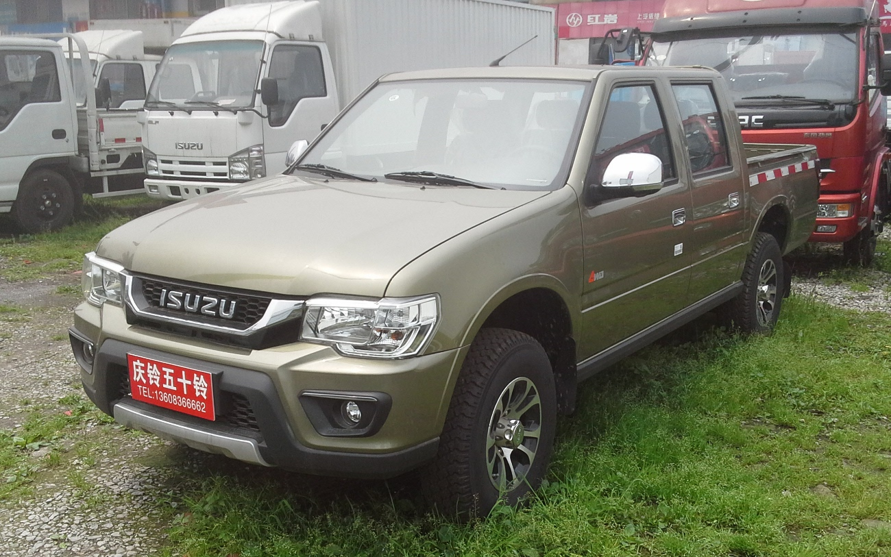 Isuzu TF facelift II photographed in Chongqing, China.